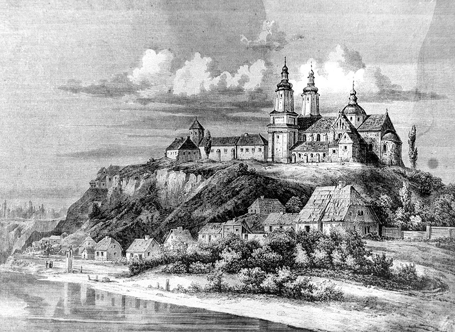 Benedictine abbey and Cathedral in Płock (Poland)